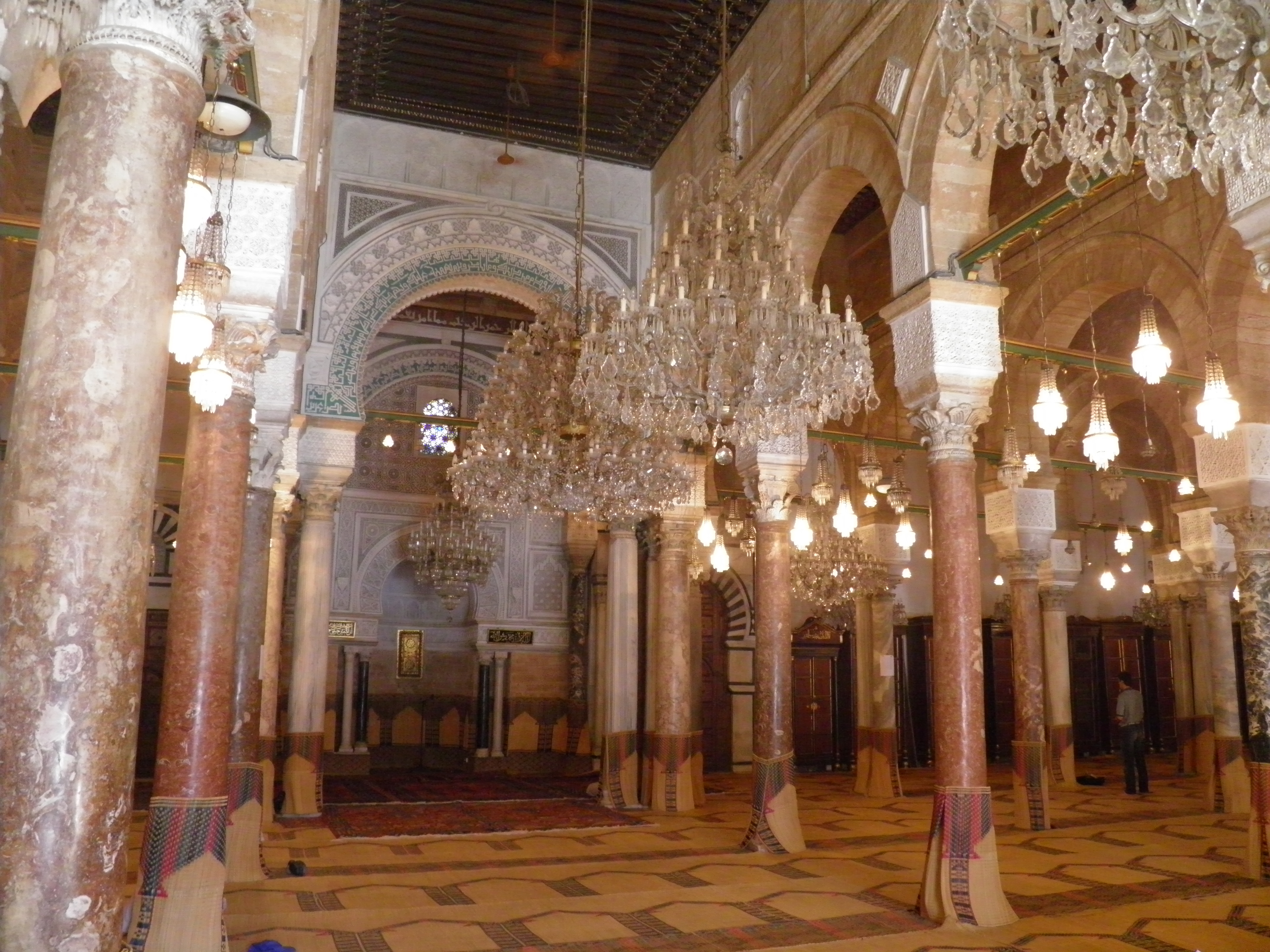 Inside Al-Zaytuna Mosque